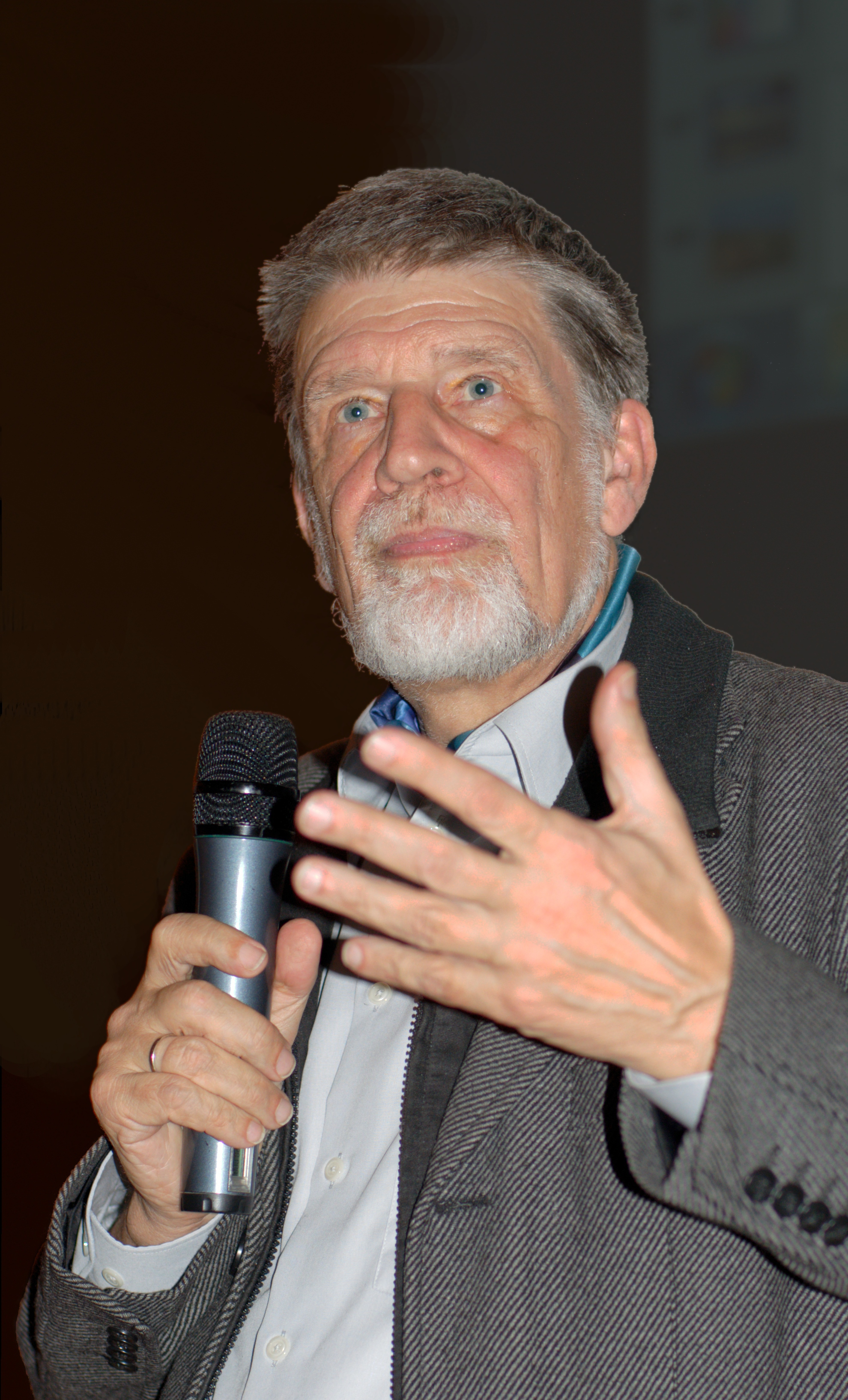 Karl-Dieter Bodack holding a speech, Freiberg am Neckar, 2011-02-08